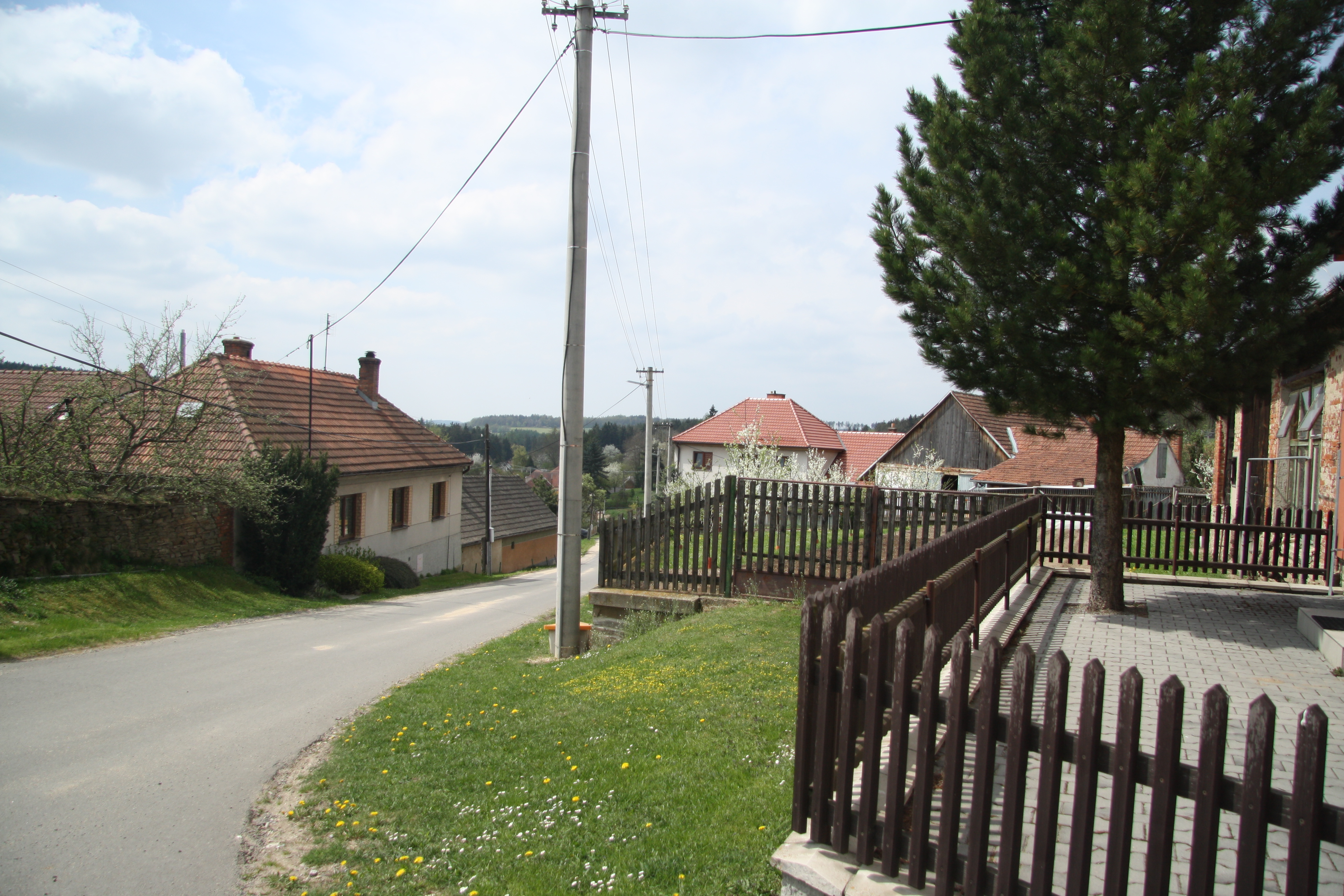 Center of Lesní Jakubov, Třebíč District.